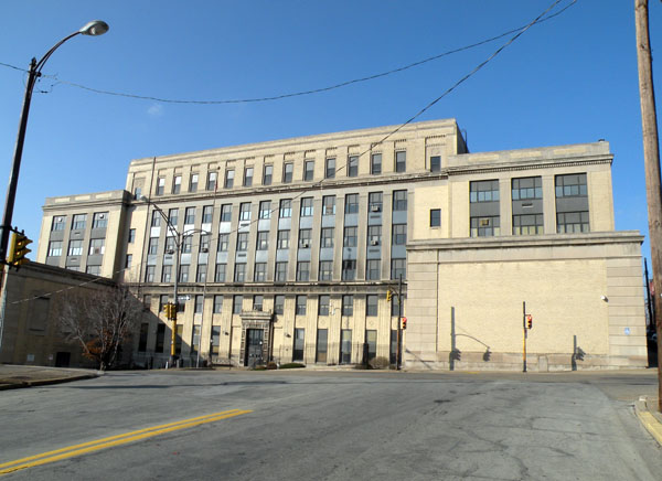 Picture of Clifford B. Connelly Trade School located at 1501 Bedford Avenue in the Crawford–Roberts neighborhood of Pittsburgh, Pennsylvania, on December 4, 2009. The school was built in 1930, and is listed on the National Register of Historic Places. Architects: Edward B. Lee, J.G. Fullman Co. Architectural style: Classical Revival.